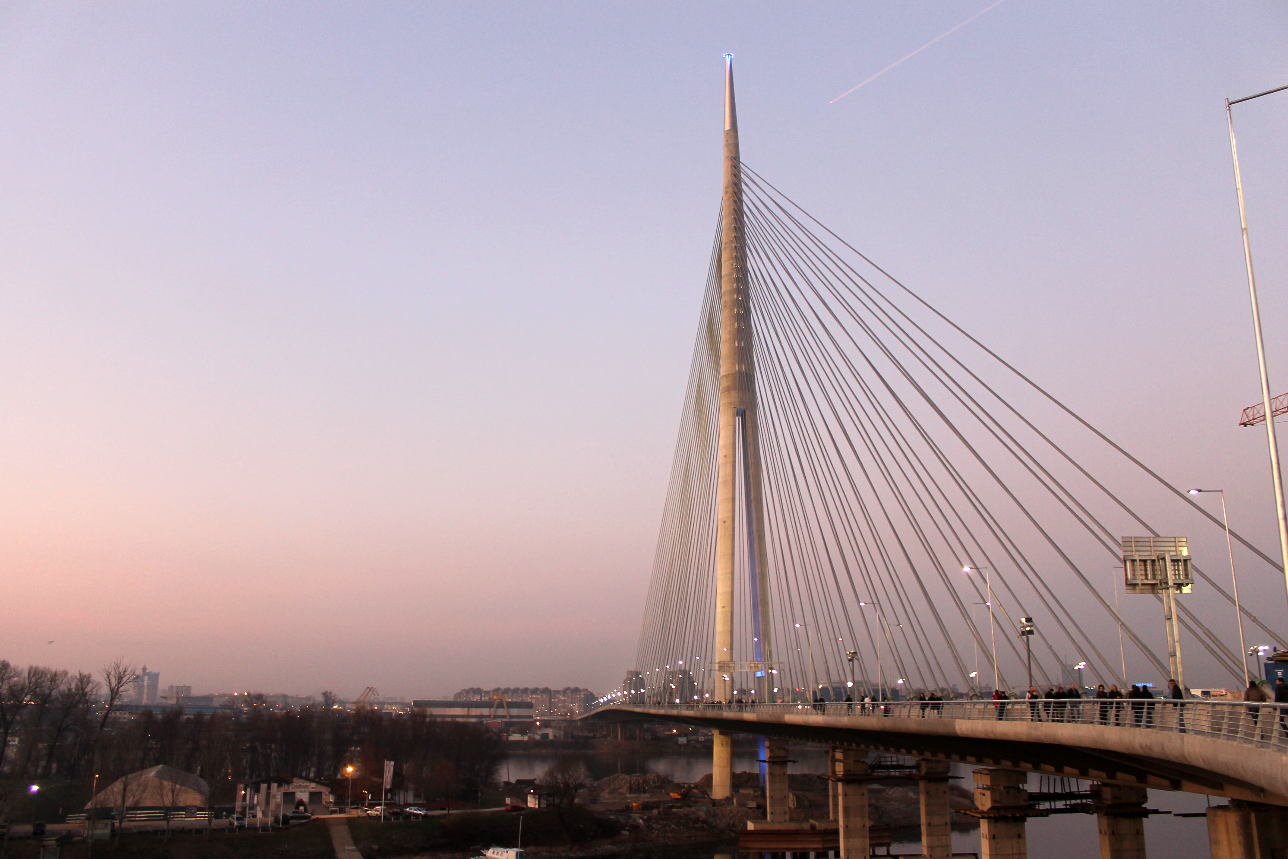 Ada Bridge at dusk (January 2012)